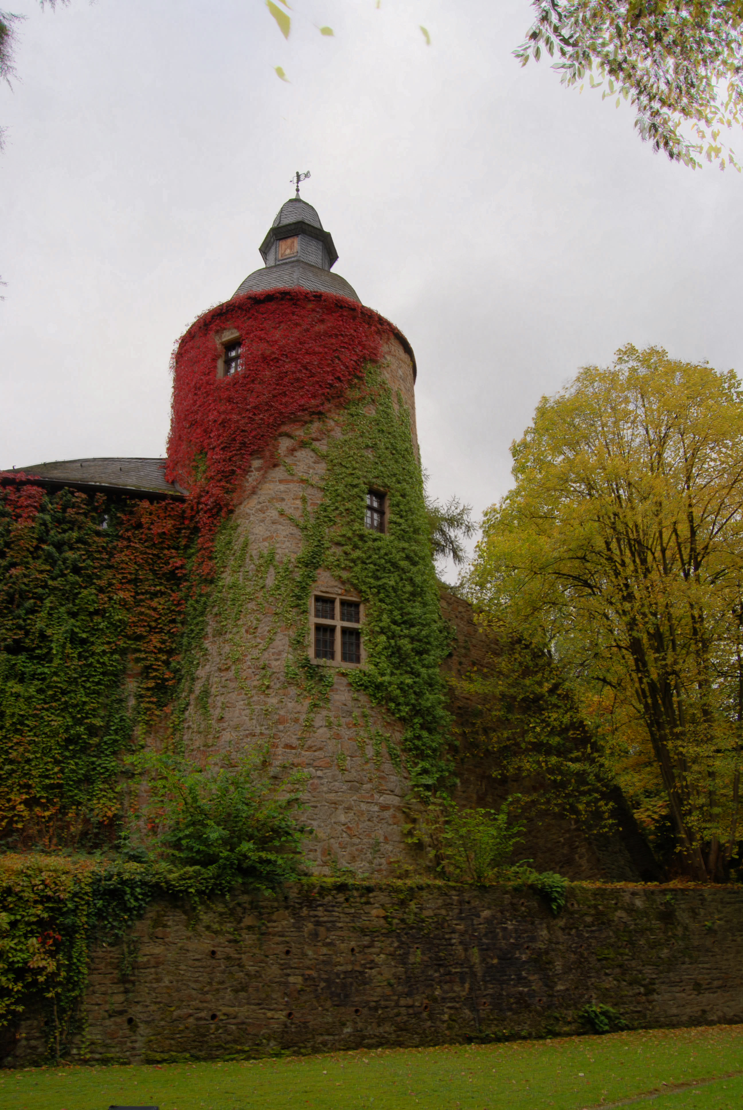 Ratingen (North Rhine-Westphalia, Germany) – Landsberg Castle – tower at the eastern side This image shows a heritage building in Germany, located in the North Rhine-Westphalian city Ratingen (no. 92). This photograph was taken with a Nikon D3000